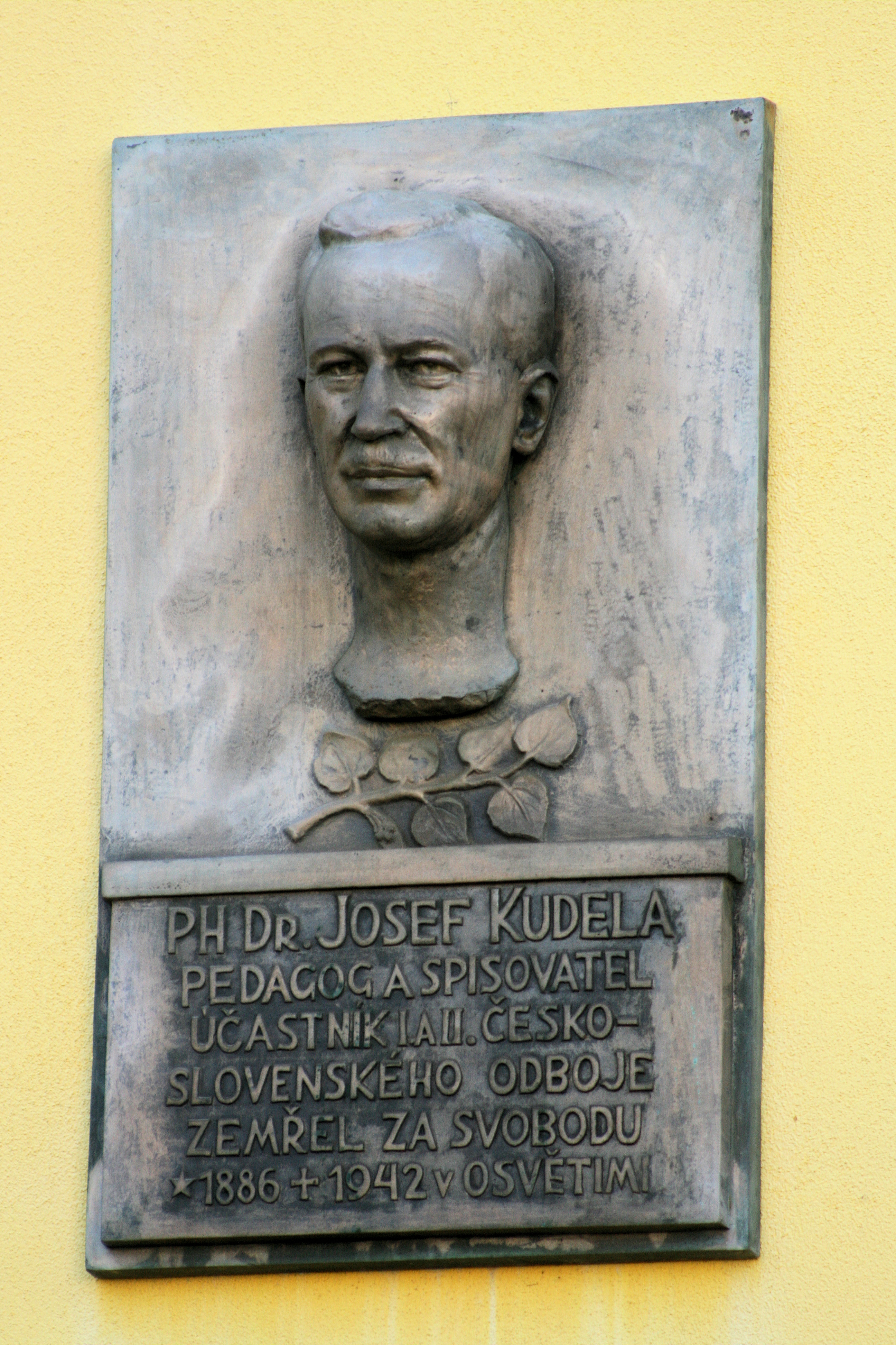 Villa of PhDr. Josef Kudela by architect Jan Víšek, Brno, Czech Republic.